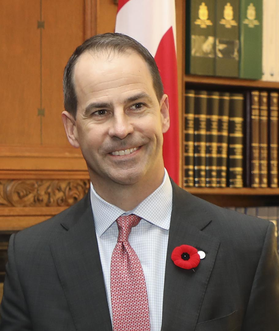 Congratulations to new BMO Financial Group CEO, Darryl White! I look forward to the opportunity to meet again soon.